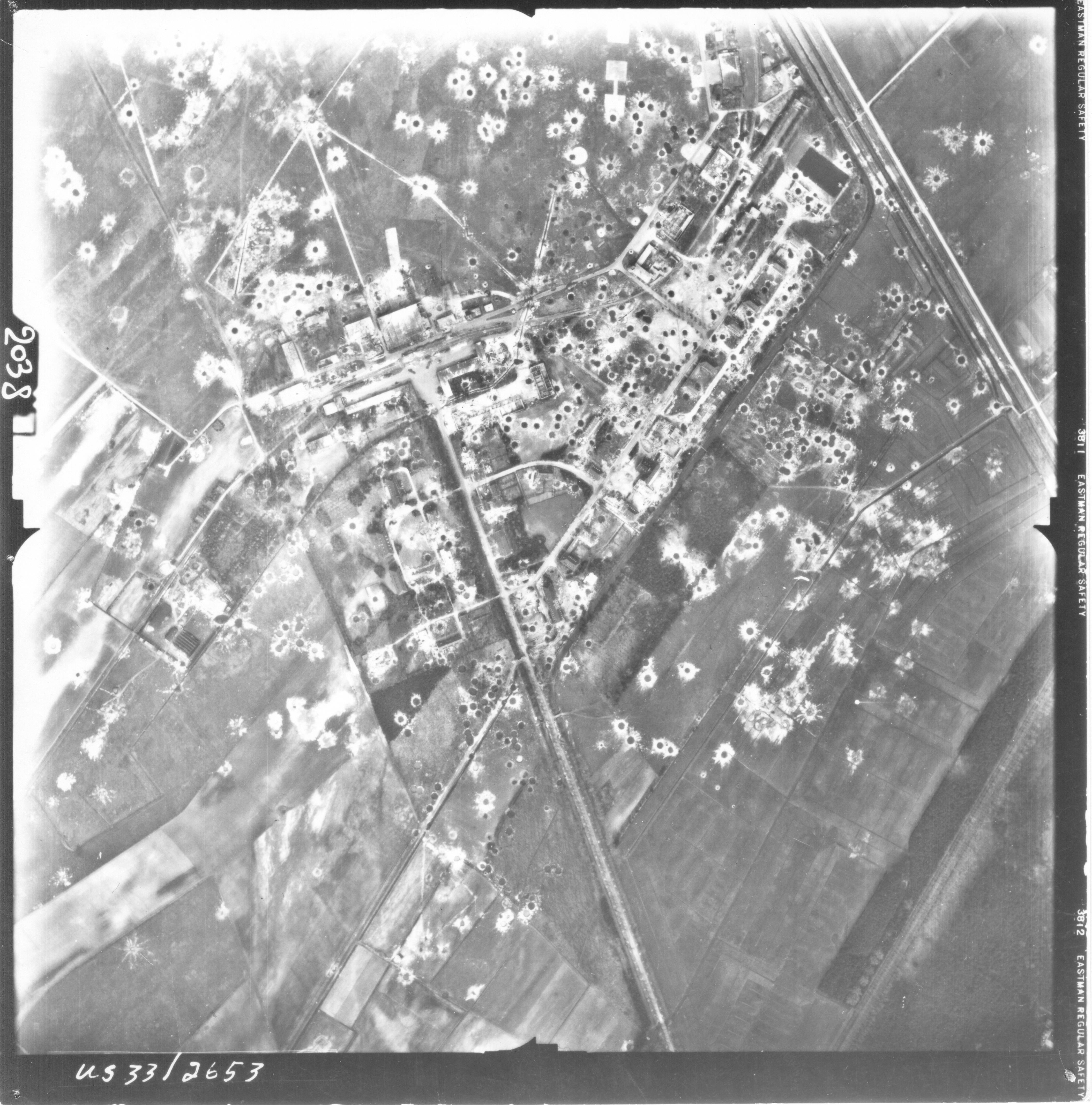 aerial photograph (part 1) of Lippstadt a/f (Germany) with damages after air attack on 05 October 1944. Taken by by 33th Photo Recc. Squadron / 363rd Photo Recc. Group / XXIX. TAC [Tactical Air Command] on behalf of 9th U. S. Army